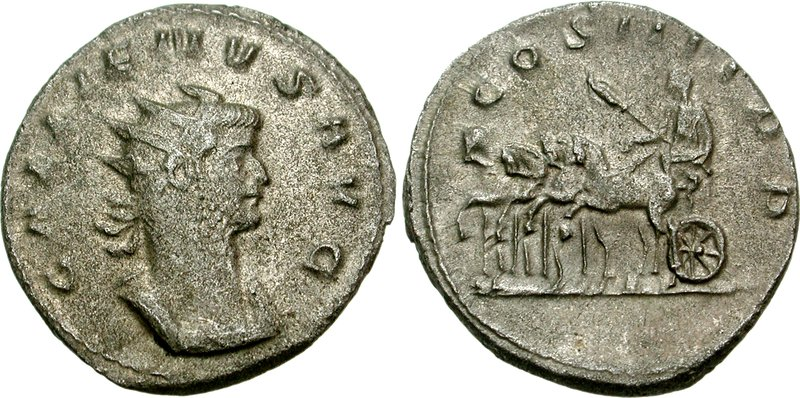 Gallienus. AD 253-268. AR Antoninianus (3.70 g, 12h). Rome mint, 1st officina. 6th emission, 1st phase, AD 260/1-262. GALLIENVS AVG, radiate and cuirassed bust right COS IIII P P, Gallienus driving quadriga left, holding branch in left hand and reins in right. RIC V 150 var. (bust type); MIR 36, 339x; RSC 146 var. (bust type).